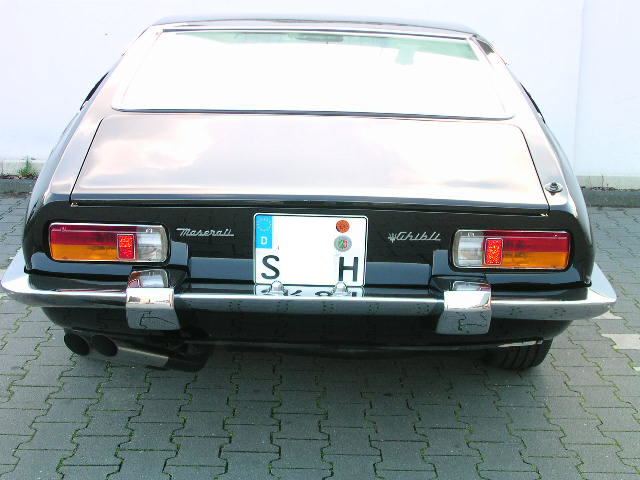 Maserati Ghibli, build between 1966 and 1973